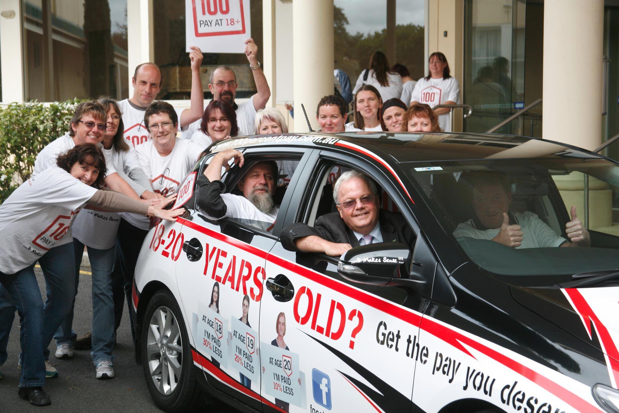 SDA campaigning to end junior wages.